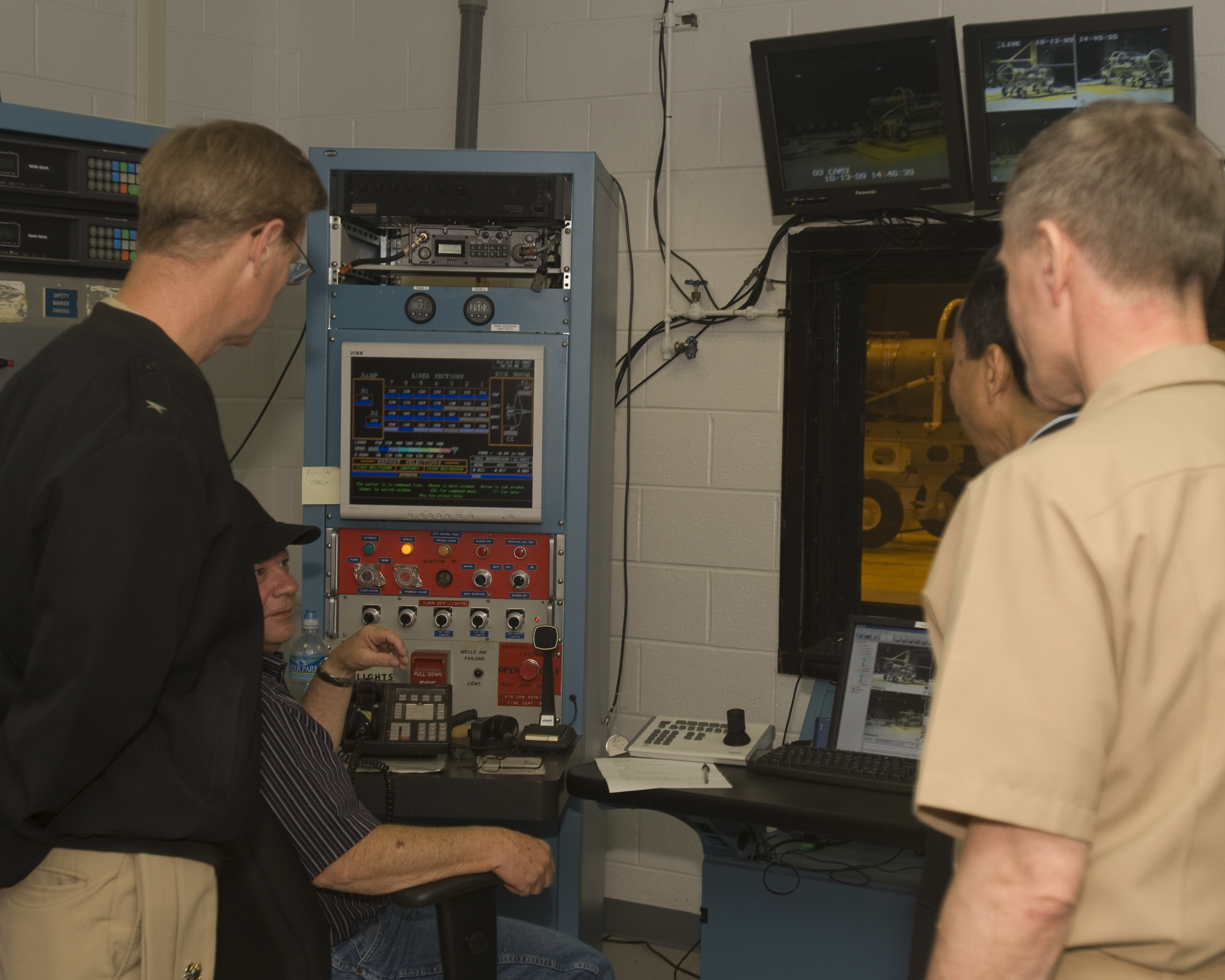 PATUXENT RIVER, Md. (Oct. 13, 2009) Engineering Technician Wayne Wood, second from the left, explains instrument readings from a biofuels test on an F404 engine from an F/A-18 to Rear Adm. Donald Gaddis, left, commander of the Naval Air Warfare Center, Aircraft Division, and assistant commander for research & engineering of NAVAIR; Roger Natsuhara, acting assistant secretary of the Navy for installations and environment and RADM Philip Cullom, director Fleet Readiness Division.